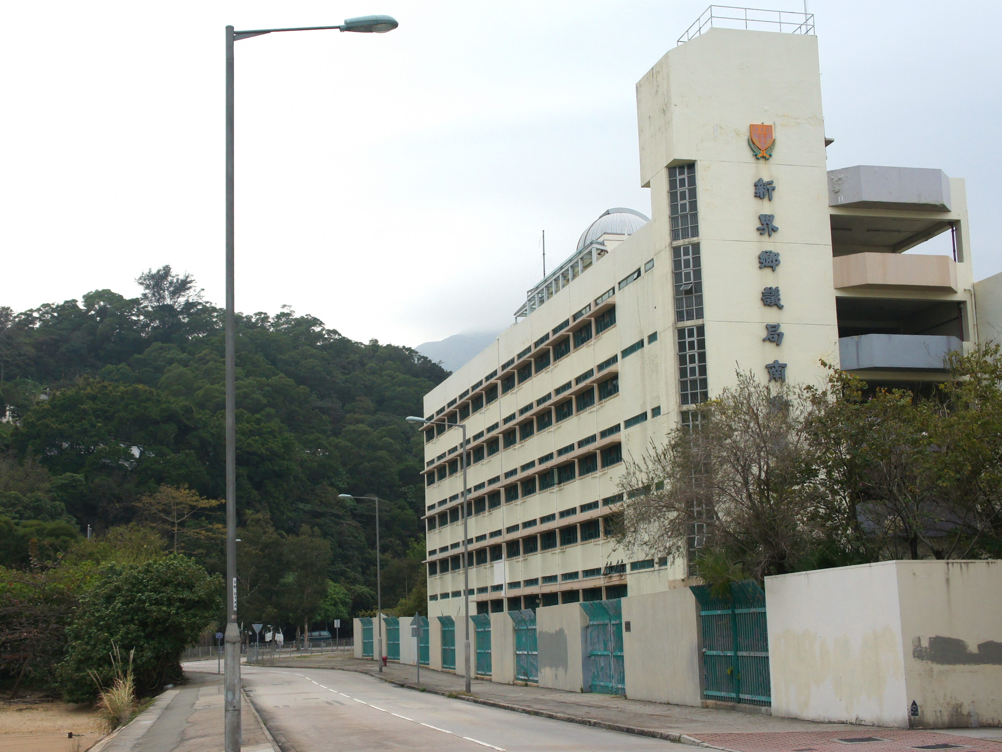 New Territories Heung Yee Kuk Southern District Secondary School, Mui Wo, Hong Kong. (closed in 2007)